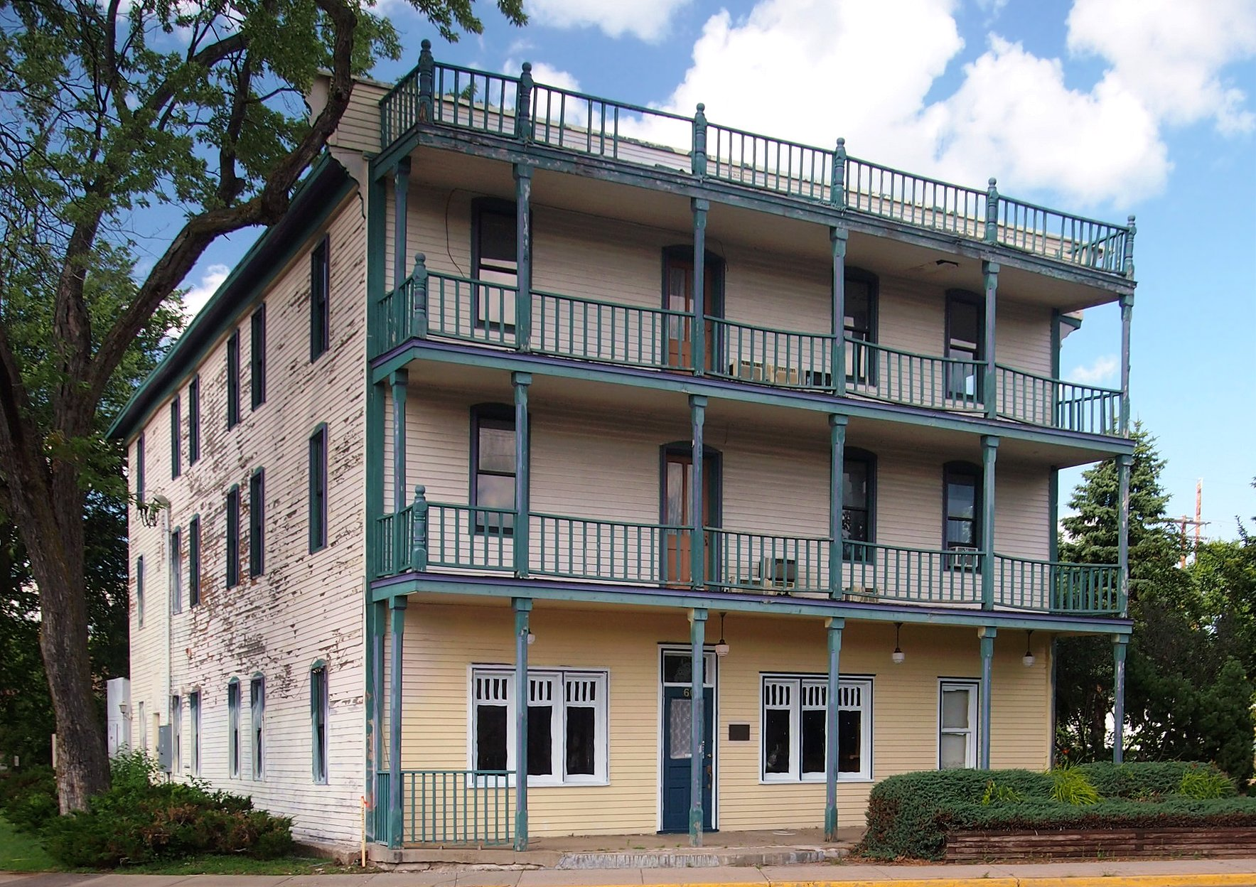 Thayer Hotel, 60 Elm St W, Annandale, Minnesota, USA. Viewed from the south-southwest.